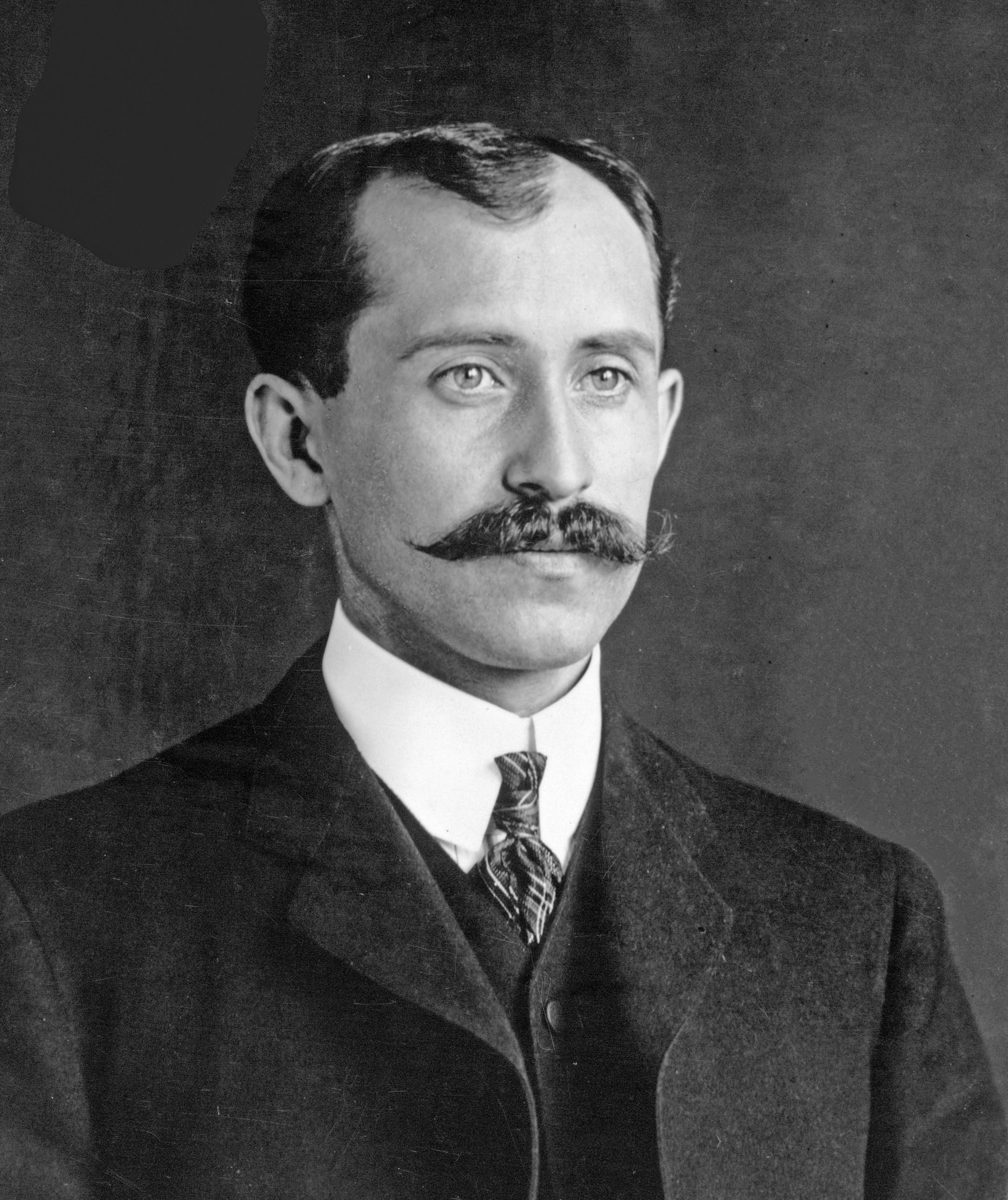 Photographic portrait of Orville Wright, then aged 34, taken in 1905